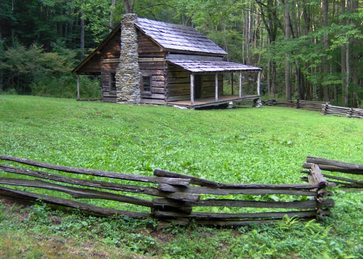 Cook Cabin in Little Cataloochee, located in the Great Smoky Mountains of North Carolina. The cabin was built in the 1850s by Daniel Cook and restored in the late 1990s.